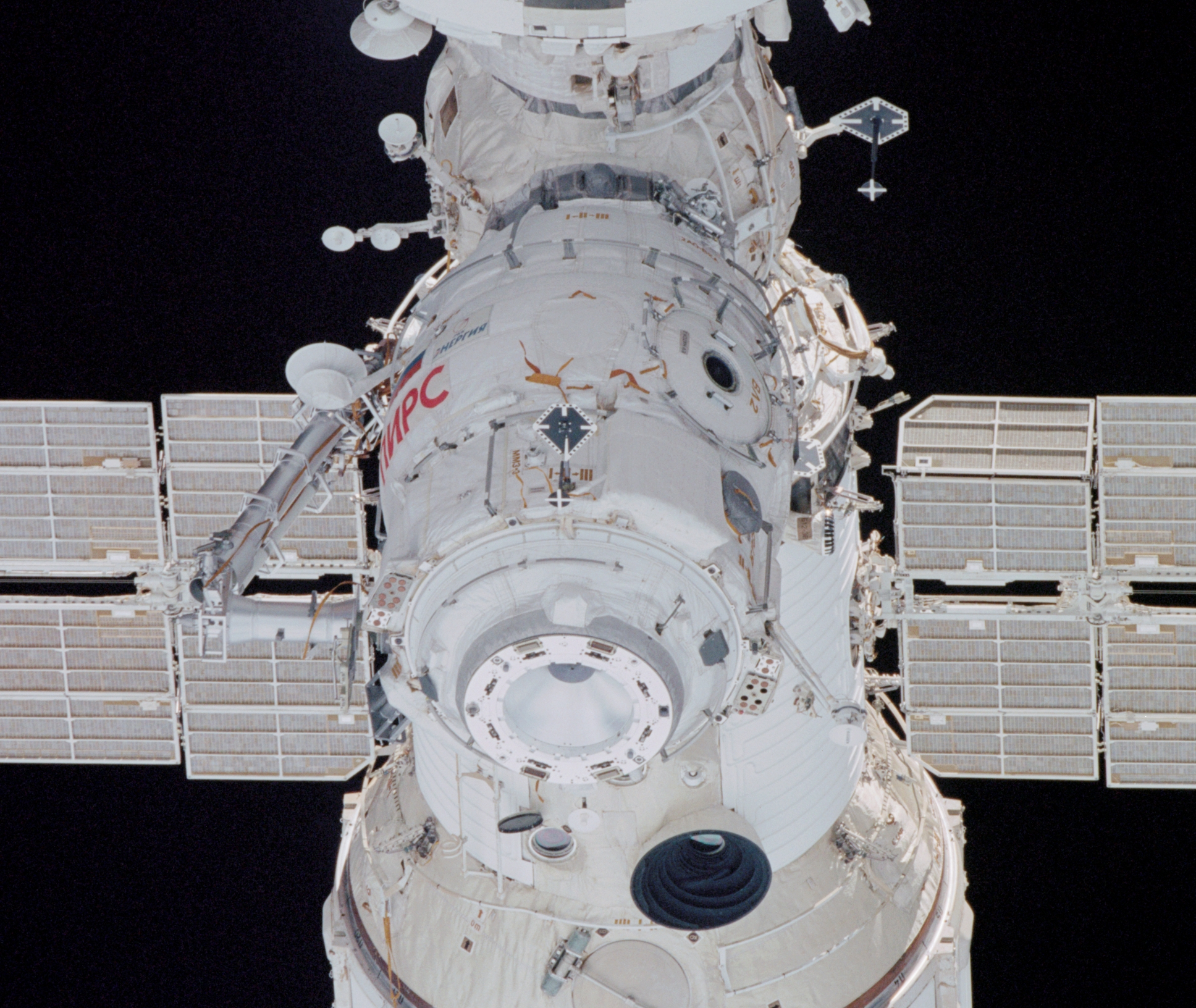 Pirs docking module taken by STS-108 (NASA) original description: Backdropped by the blackness of space, the Pirs docking compartment on the International Space Station (ISS) was photographed by a crew member aboard the Space Shuttle Endeavour.